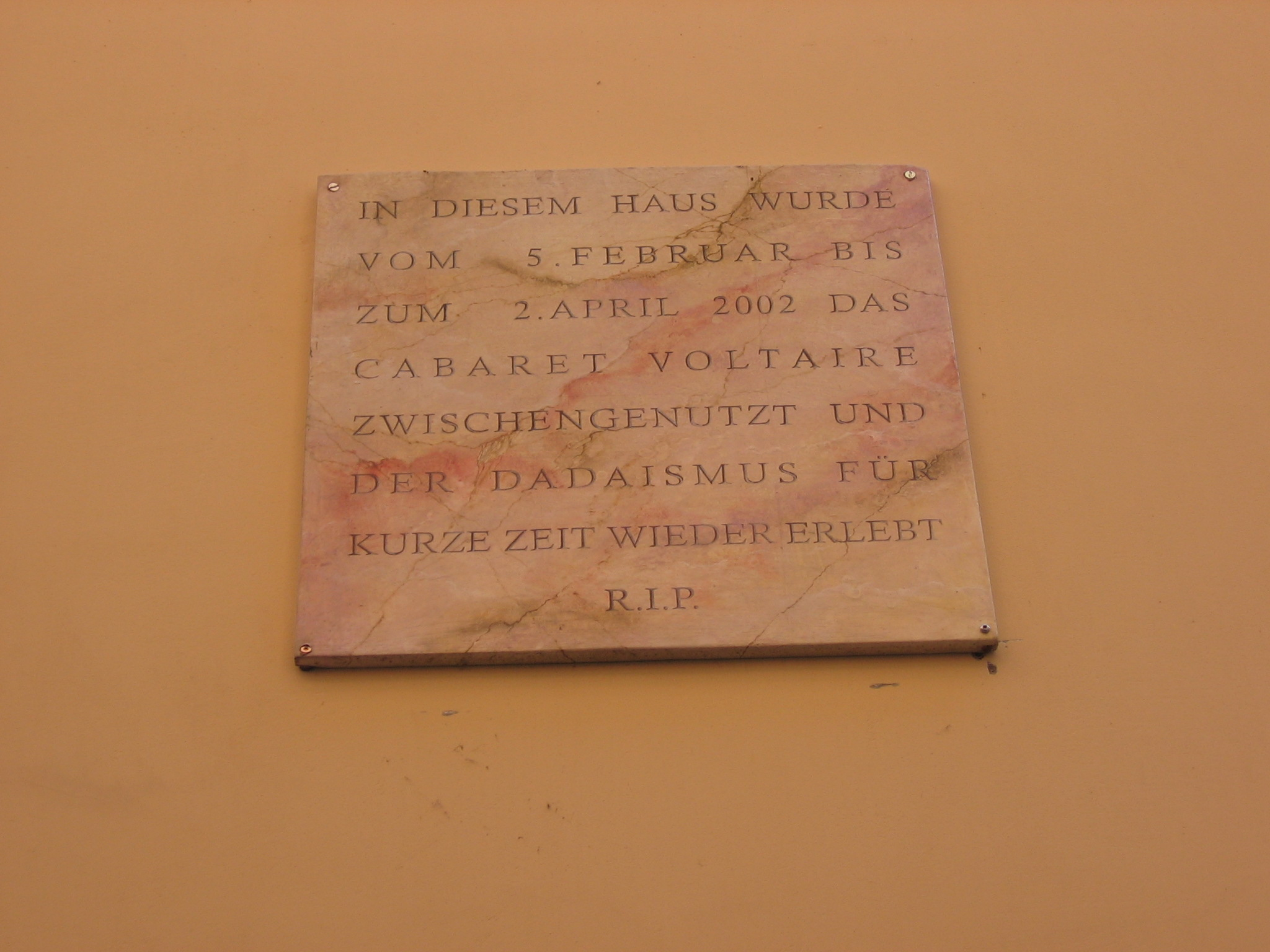 this is a sign on cabaret voltaire, zurich. picture taken by me.